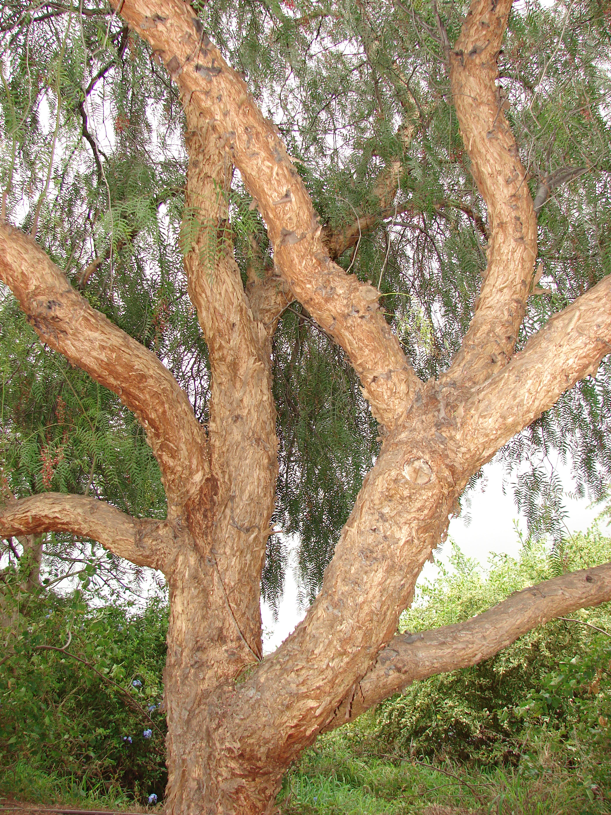 Schinus molle (trunk and bark). Location: Maui, Omaopio